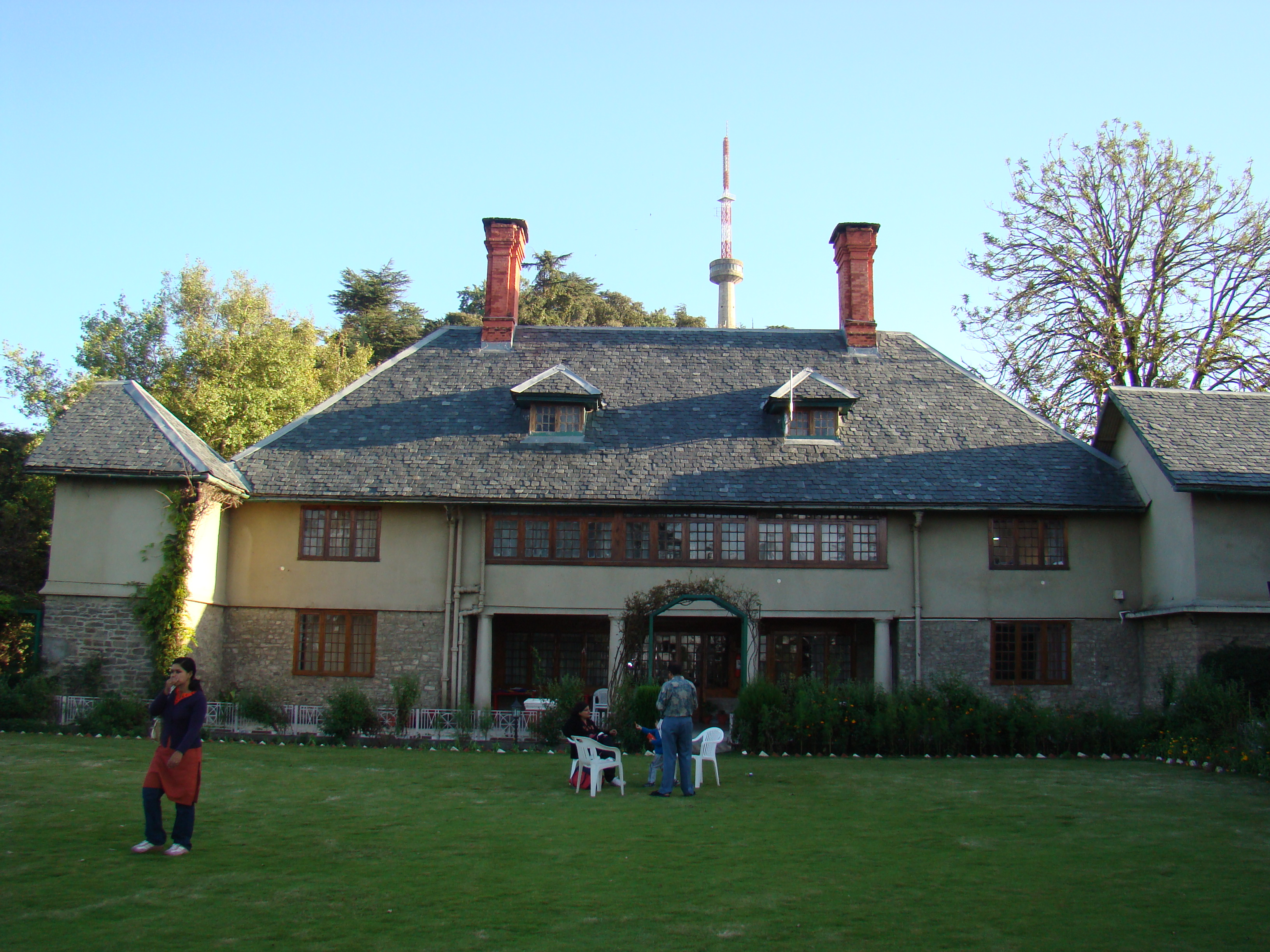 "Yarrows" at NAAA, based on the name of a flower "Achillea millefolium". Located at Shimla NAAA is the alma mater for the Indian Audits and Accounts Service.